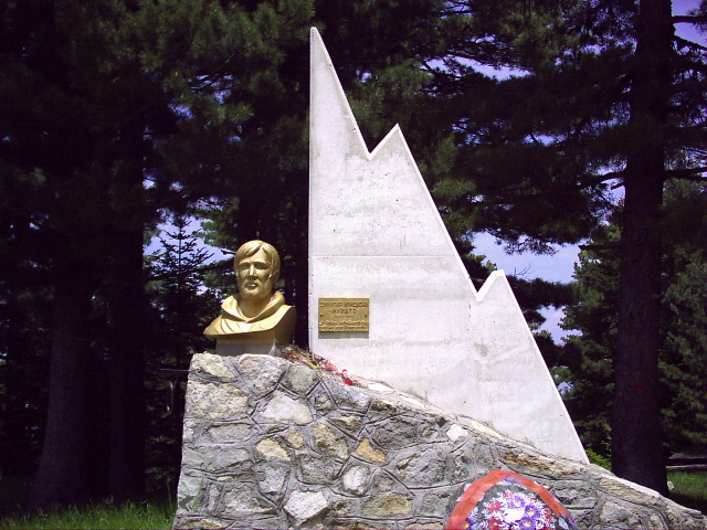 Memorial of Dimitar Ilievski - Murato, the first Macedonian to conquer Mount Everest